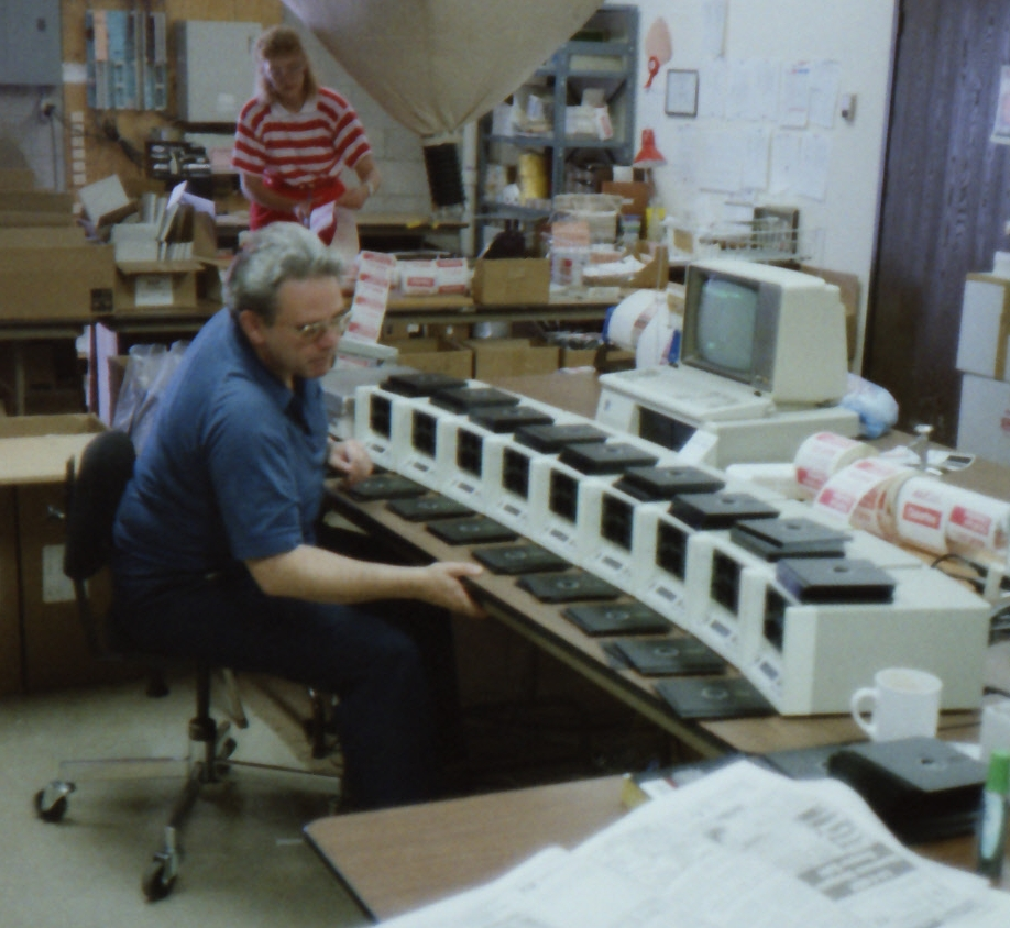 Disk copying setup using nine ALF Quick Copy duplicators.